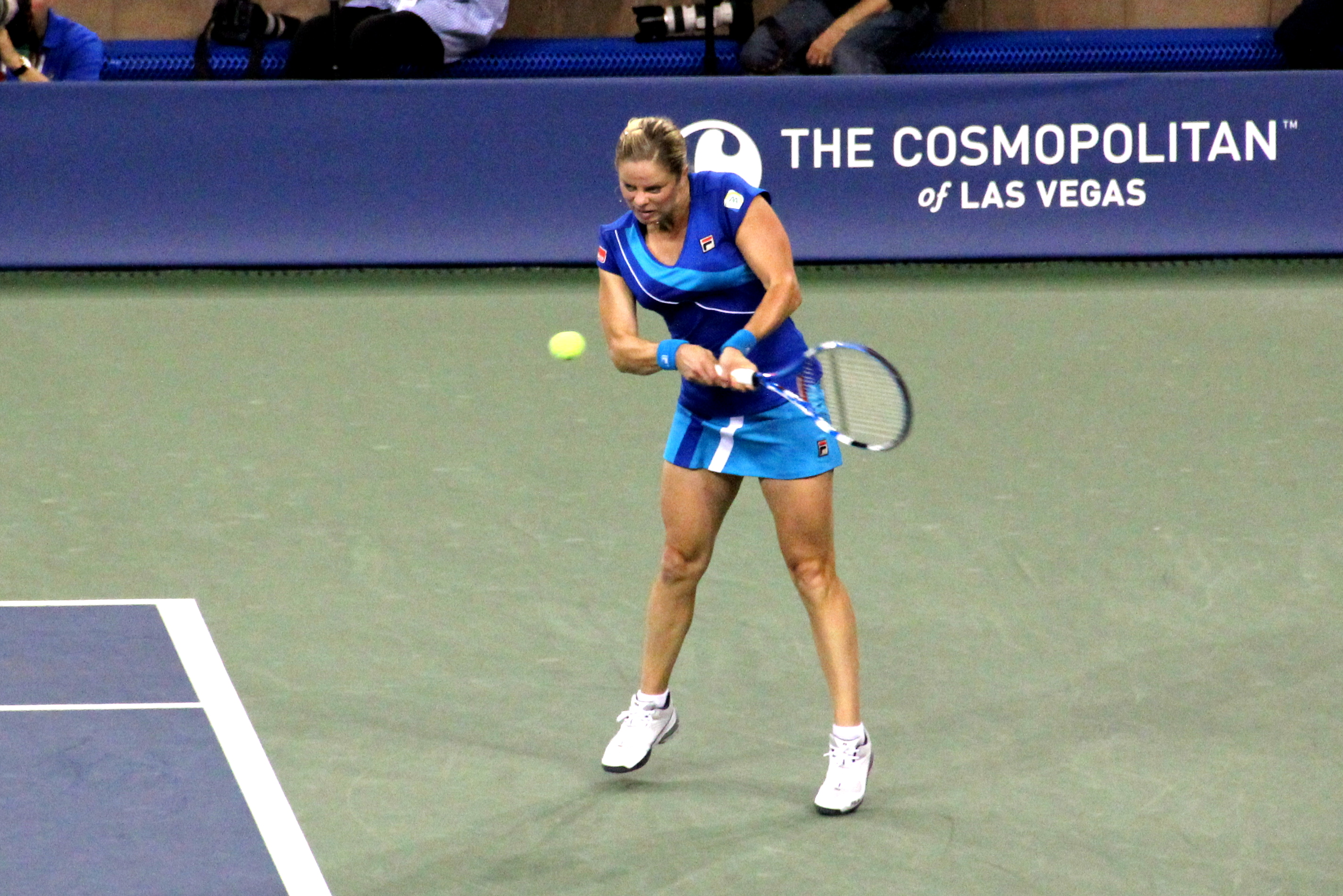 Clijsters vs. Stosur match on Tuesday night, 9/7 at the US Open. The Cosmopolitan is in New York for the 2010 US Open, inviting attendees and guests to experience signature views from our Overlook and in our custom designed suite with prime-stadium seating. For more information on The Cosmopolitan visit